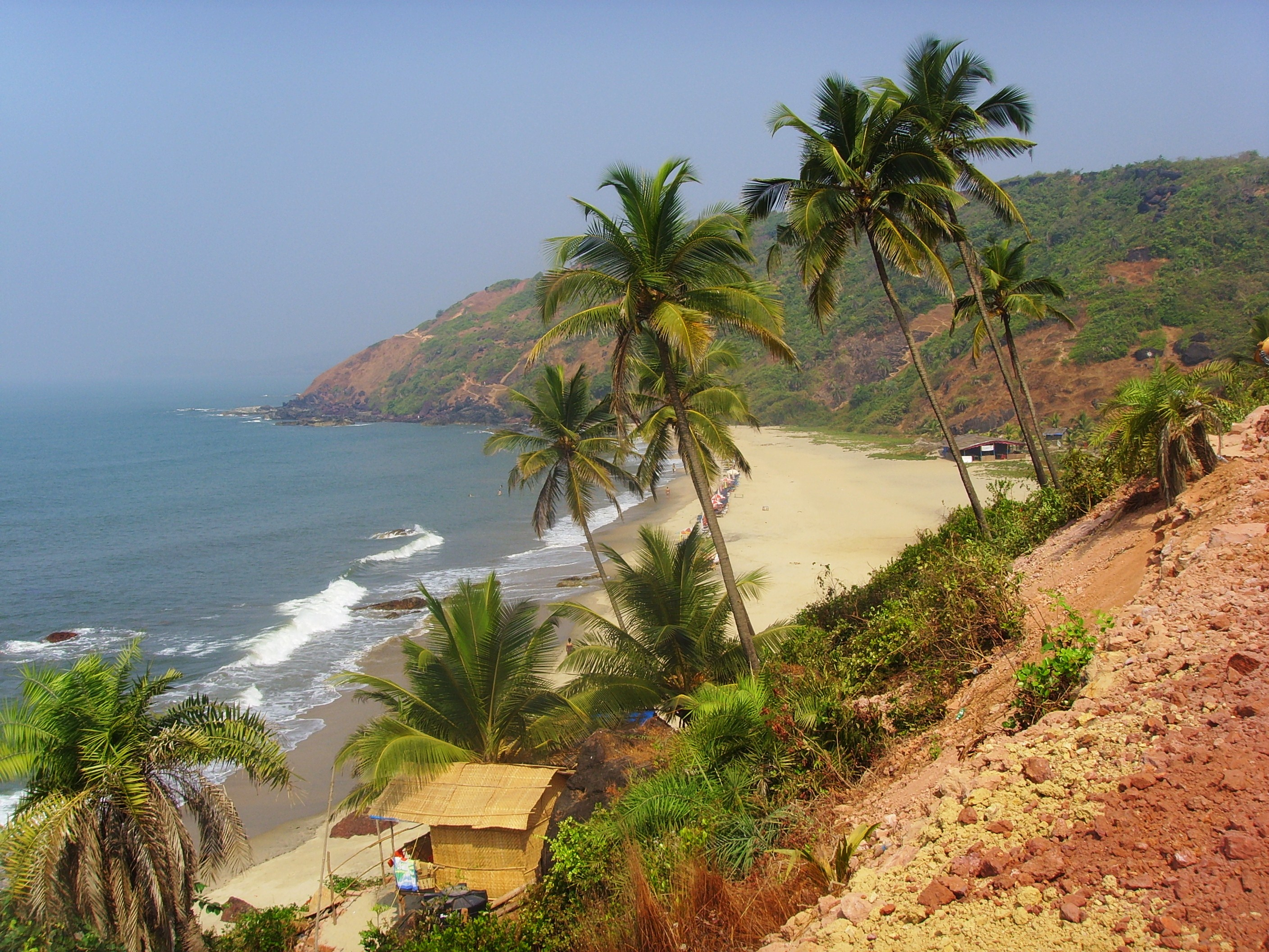 Arambol beach in northern Goa, India.